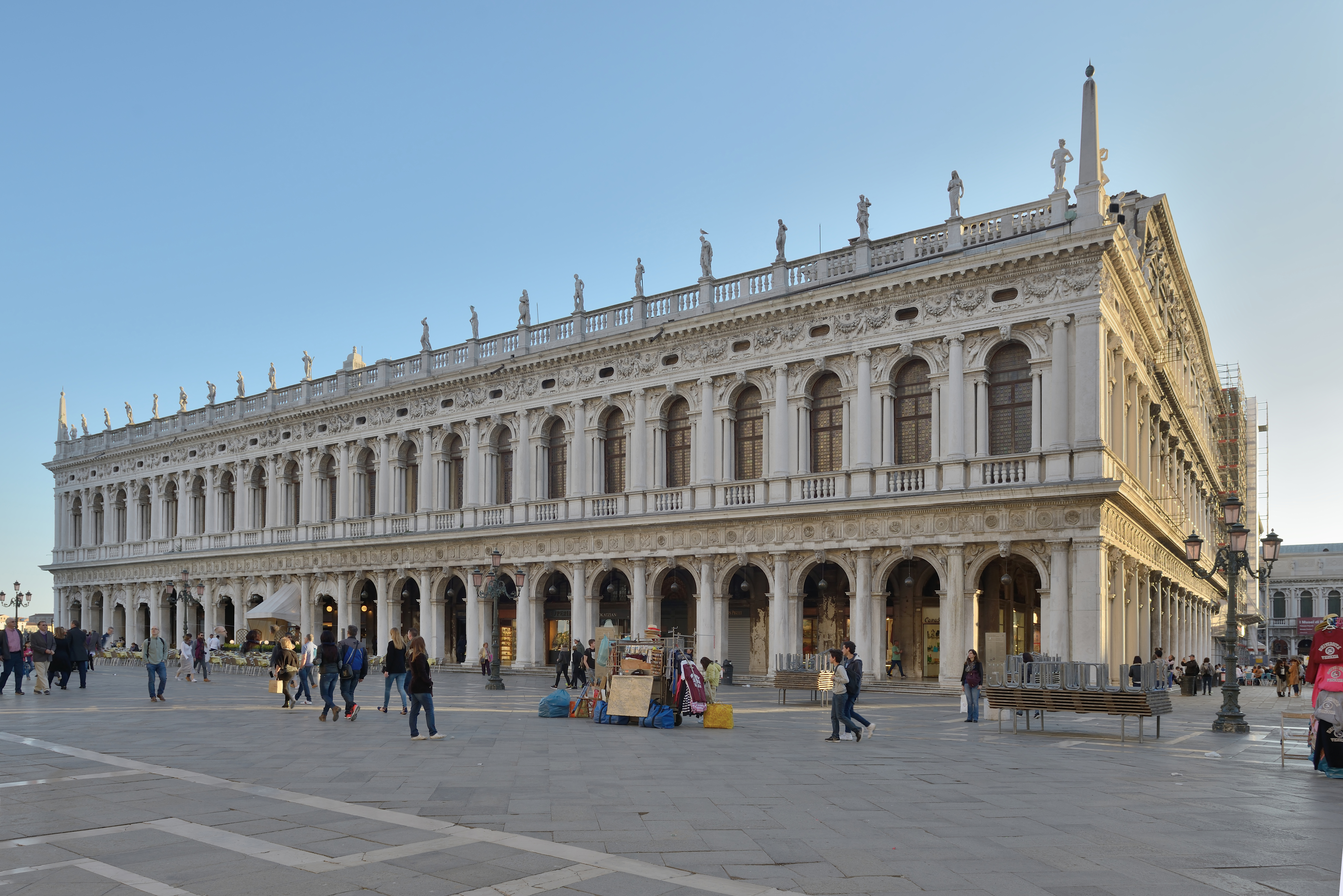 The Biblioteca Marciana in Venice. View at sunset